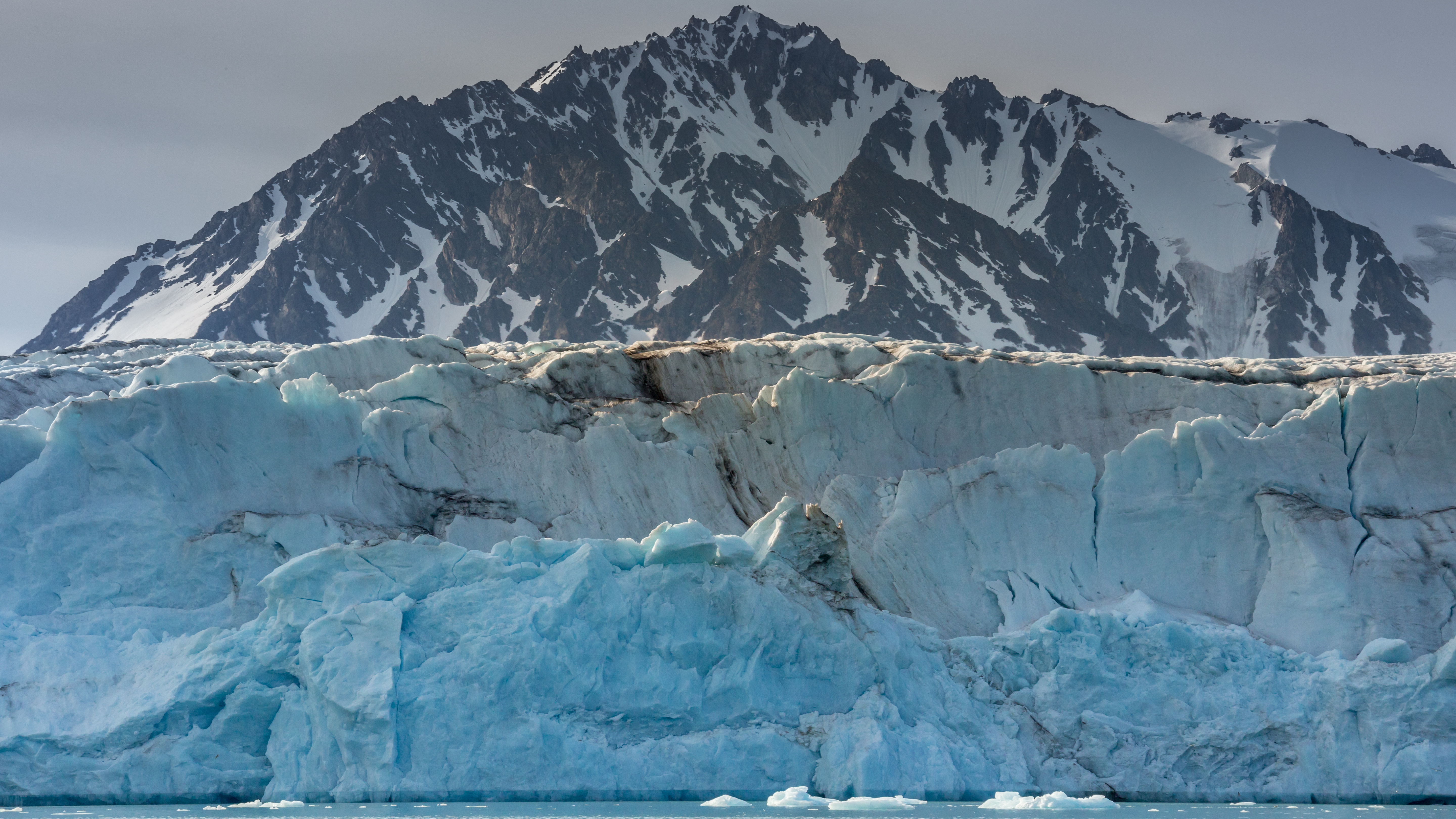 The front of the Raudfjord glacier in the eponymous fjord at the northern coast of Svalbard.